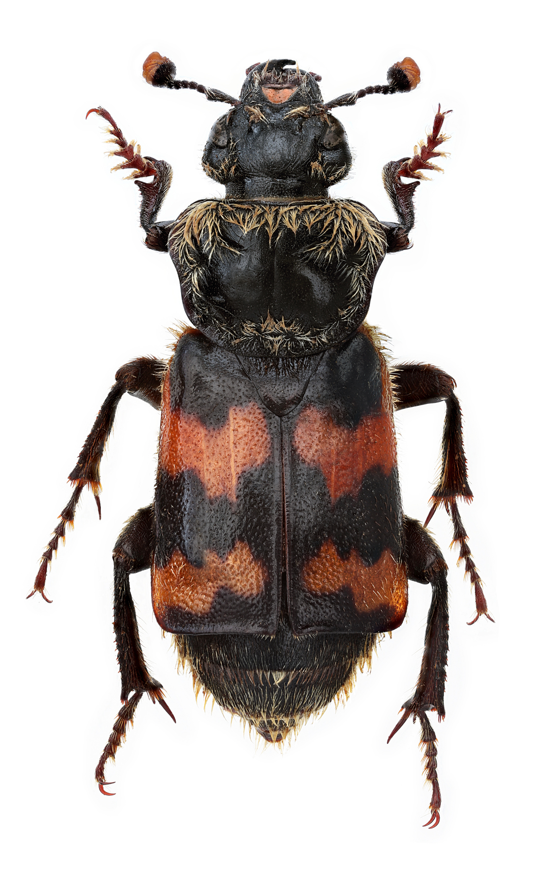 Nicrophorus vestigator